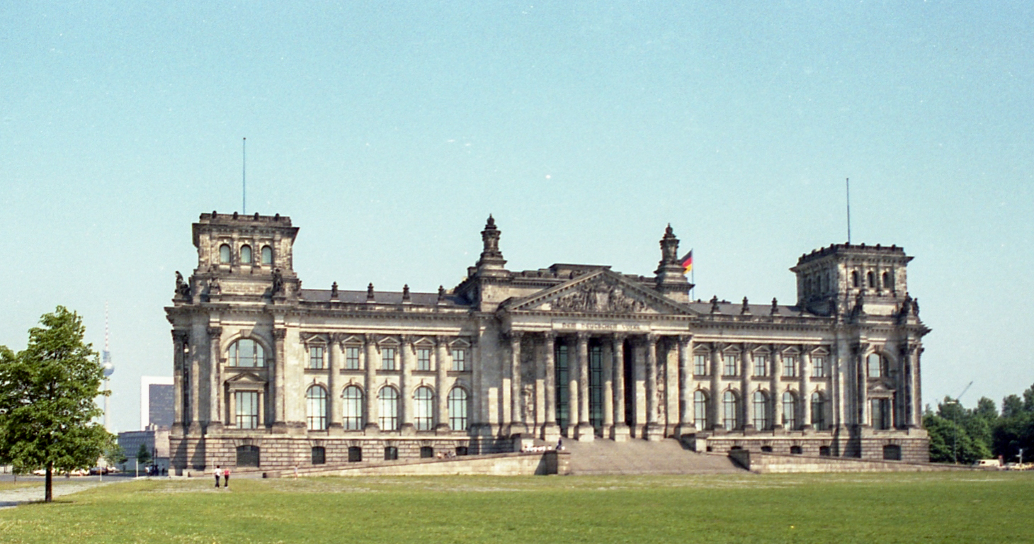 German Reichstag in Berlin